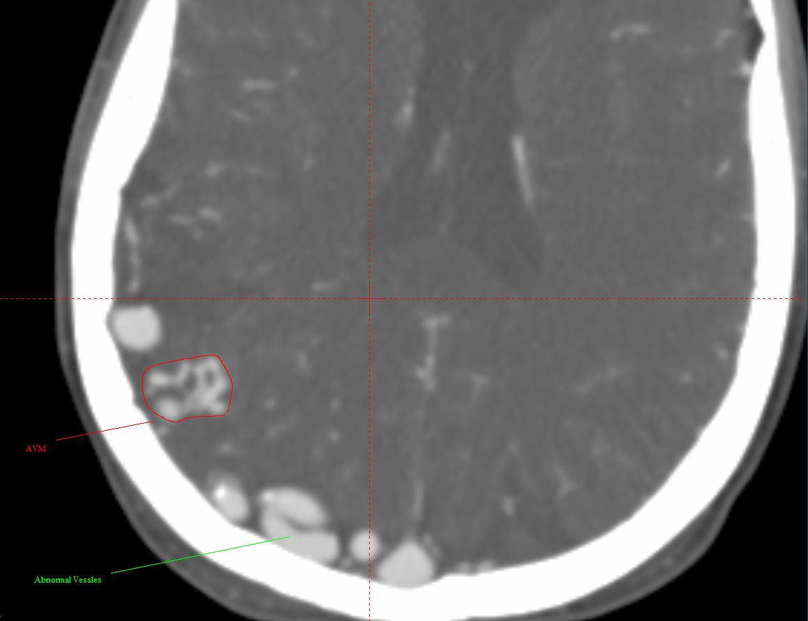 Arteriovenous malformation in the brain; CT with contrast